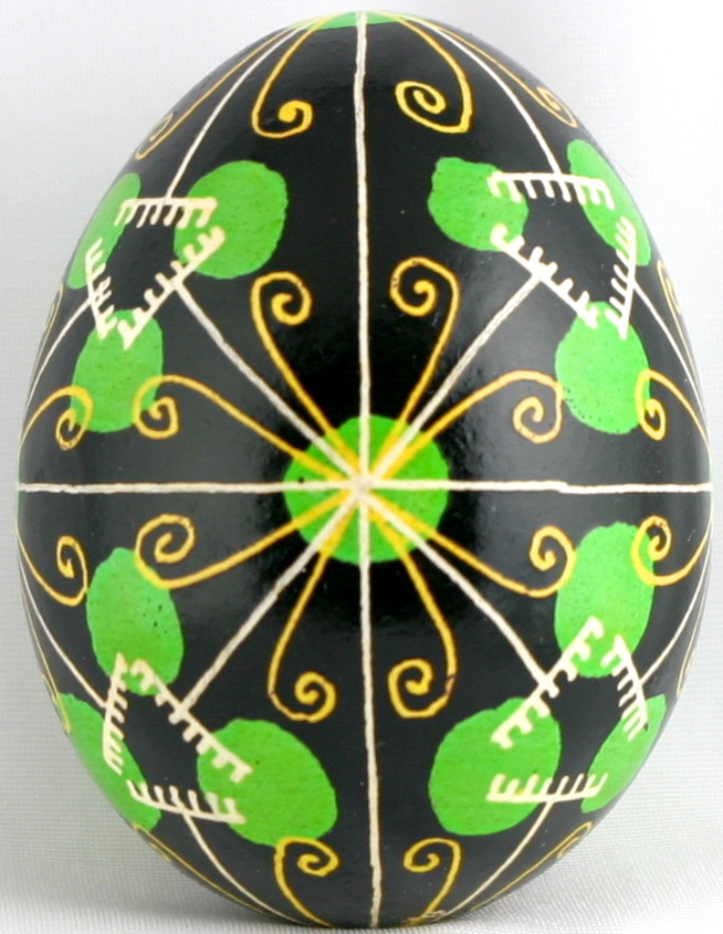 A traditional Ukrainian pysanka with rake motifs. The rakes symbolize clouds, and their tines are raindrops.